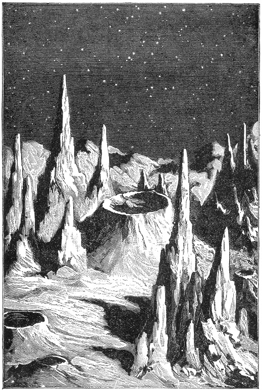 The figure was named "Lunar Day", and it represents a historical concept of the lunar surface appearance. Robotic missions to the Moon later demonstrated that the surface features are much more rounded due to a long history of impacts.